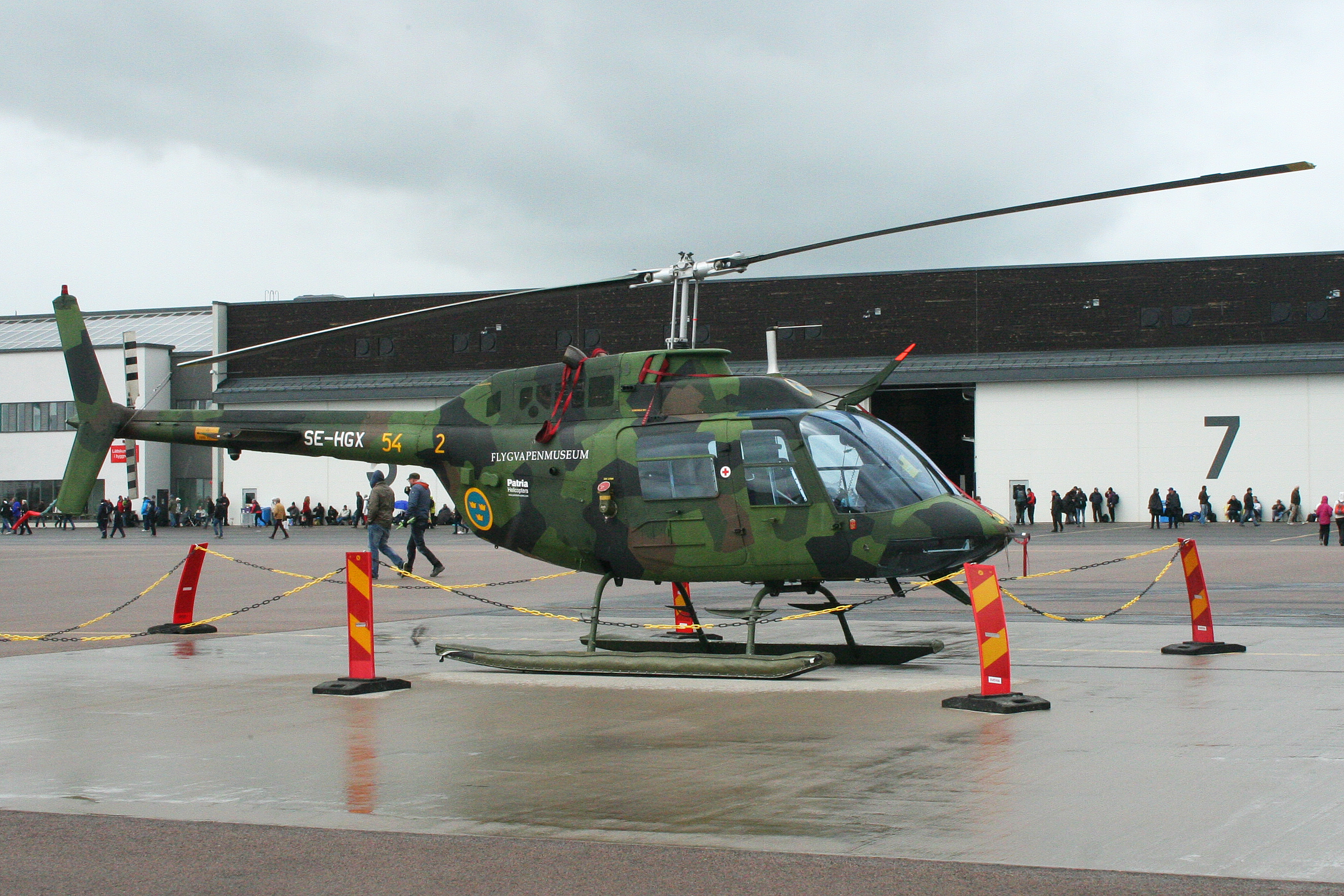 Built in 1977 as a civil Jet Ranger, it was taken into Swedish Navy use in 1988 after the loss of one of their original Hkp-6Bs. It was unique in being the only Swedish Navy Hkp-6 to wear camo. It is now one of 3 helicopters operated by the Flyvapenmuseum. msn 8555. On static display at the 2012 Malmen Airshow. Malmen, Sweden. 03-06-2012